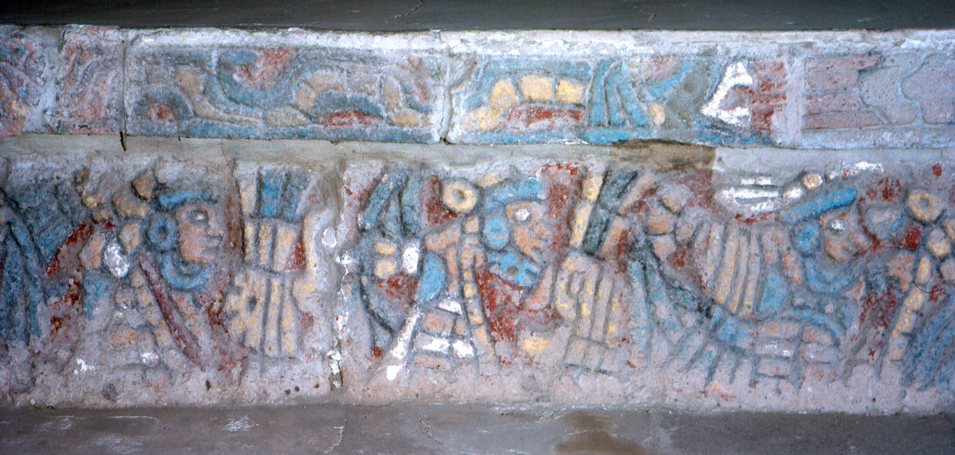 Tula, Hidalgo, Mexico: bench in Palacio Quemado